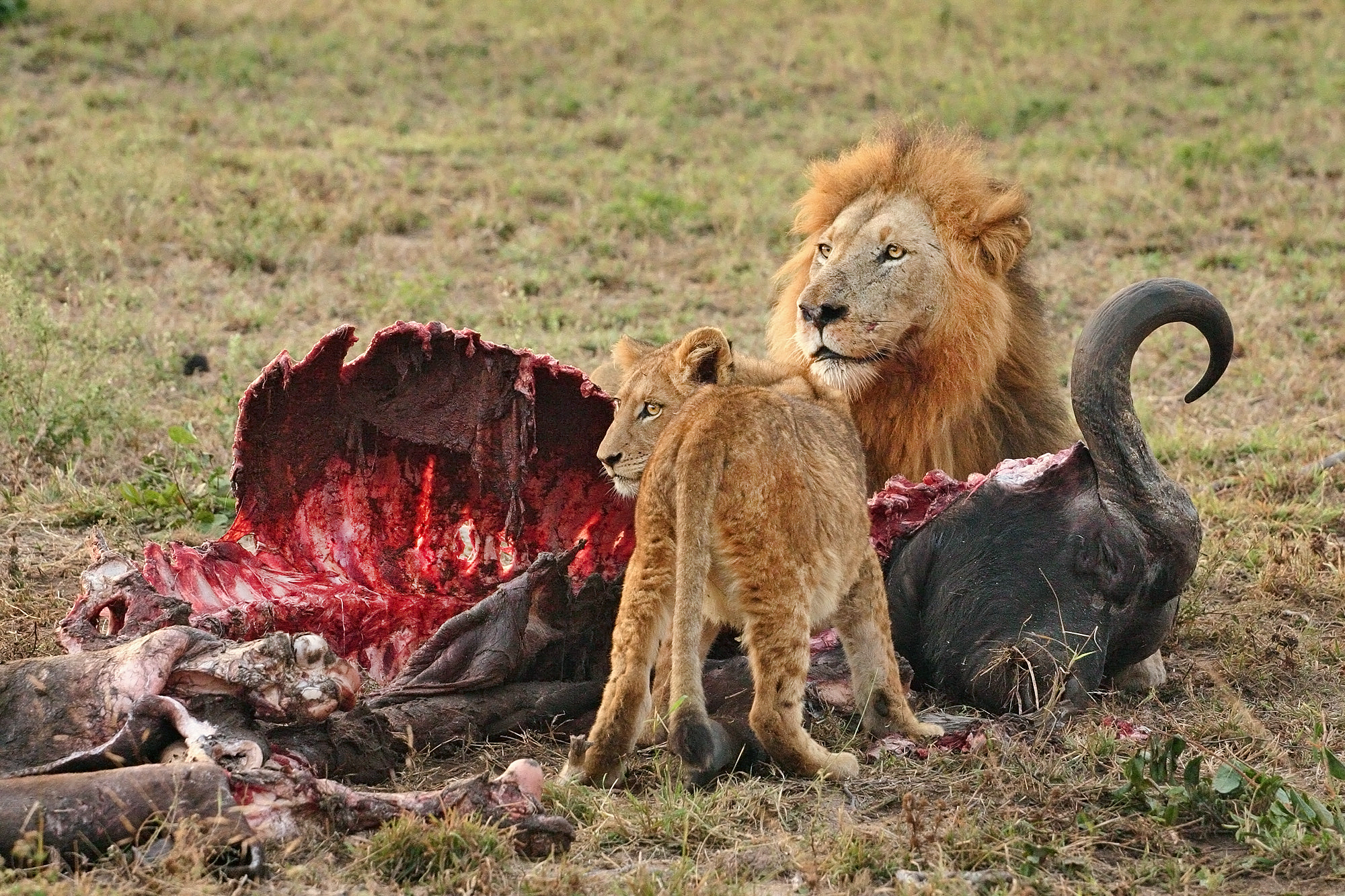 Male Lion (Panthera leo) and Cub eating a Cape Buffalo in Northern Sabi Sand, South Africa.